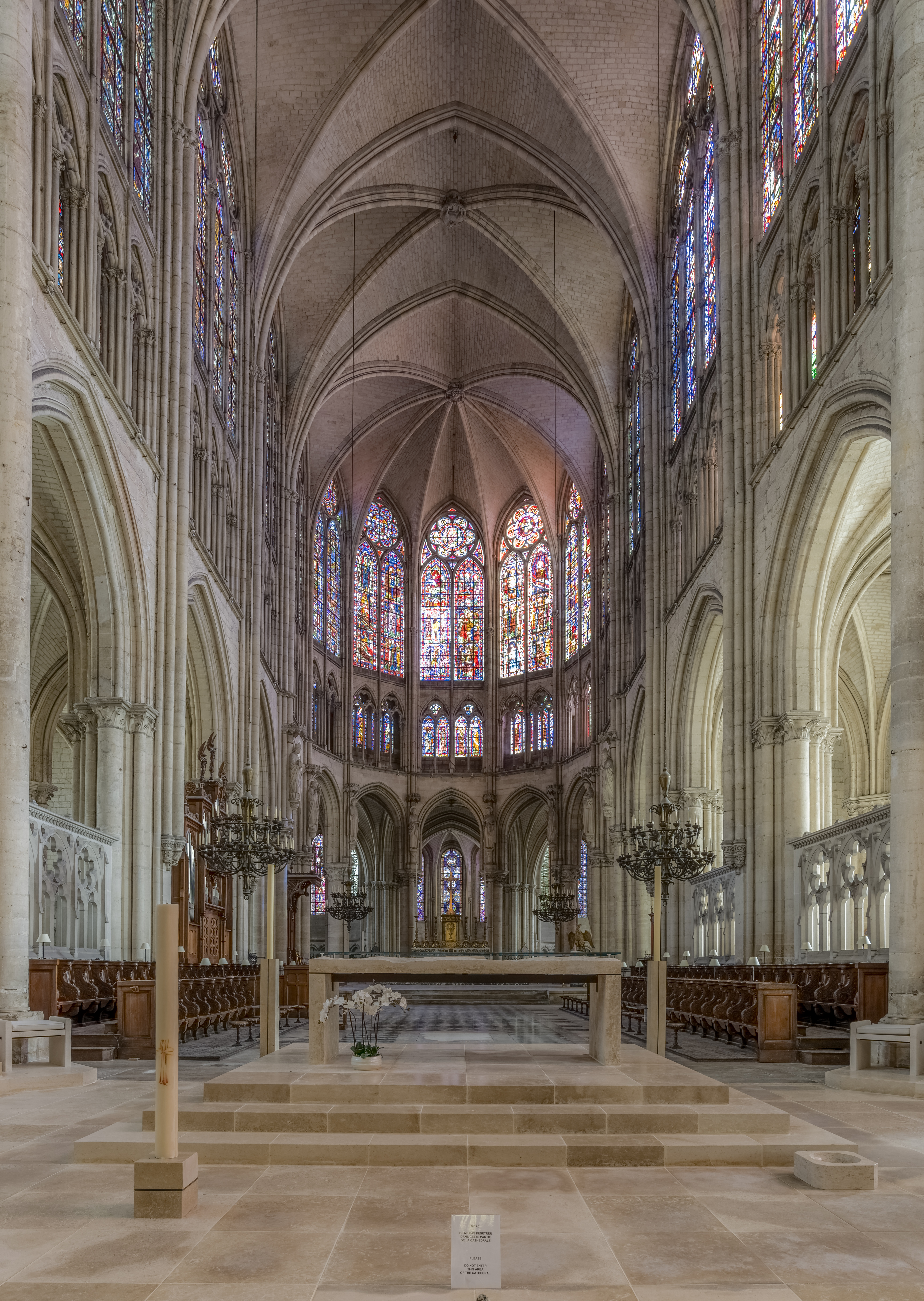 The choir and altar of Troyes Cathedral